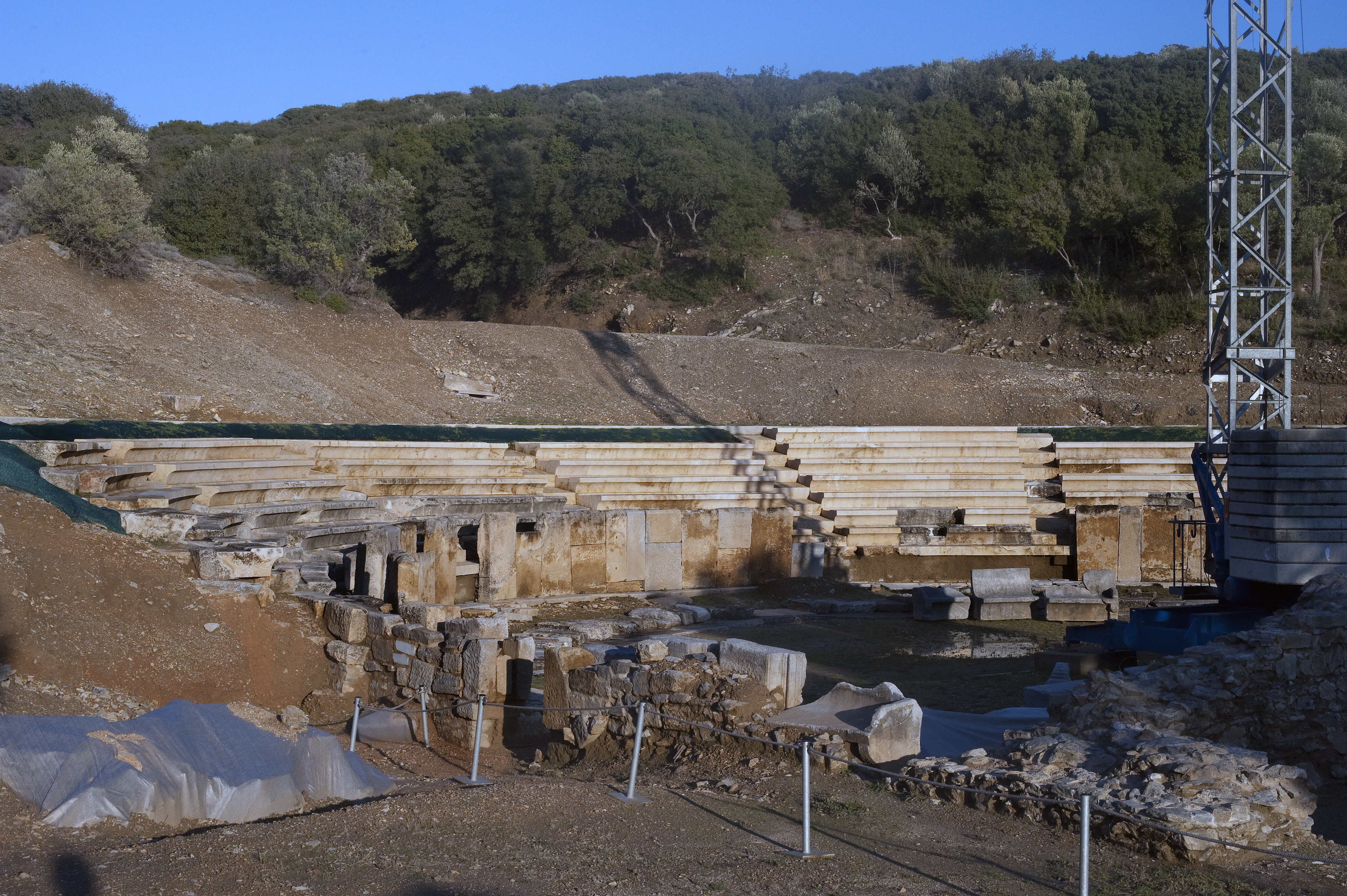 Ancient theater of Maronia, Rhodope, Greece.